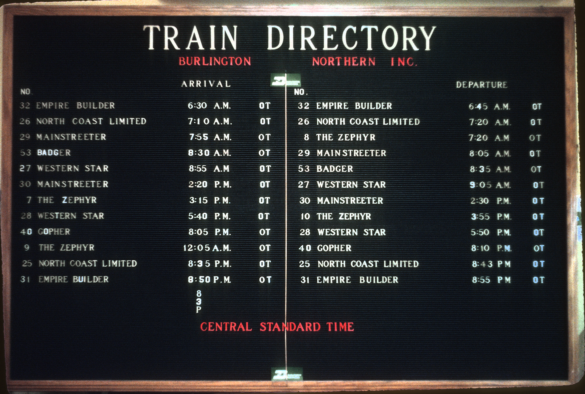 Roger did not label this slide but it must be the Burlington Northern Train Directory at the ex-GN station in Minneapolis. The slide processor's date is April 1971.